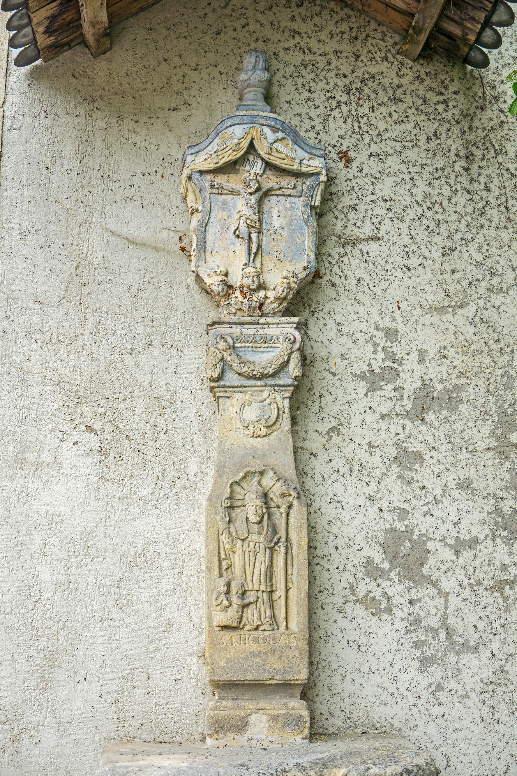 Wayside cross in Waldbredimus, rue de l'École 7